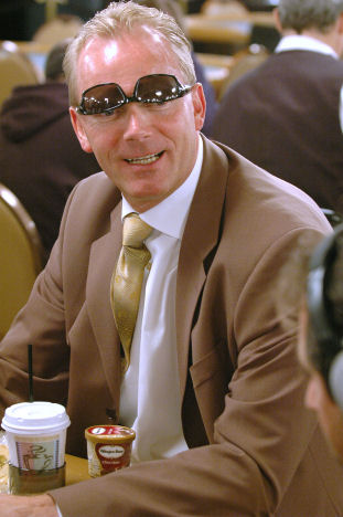 Marcel Lüske in 2006 World Series of Poker - Rio Las Vegas.